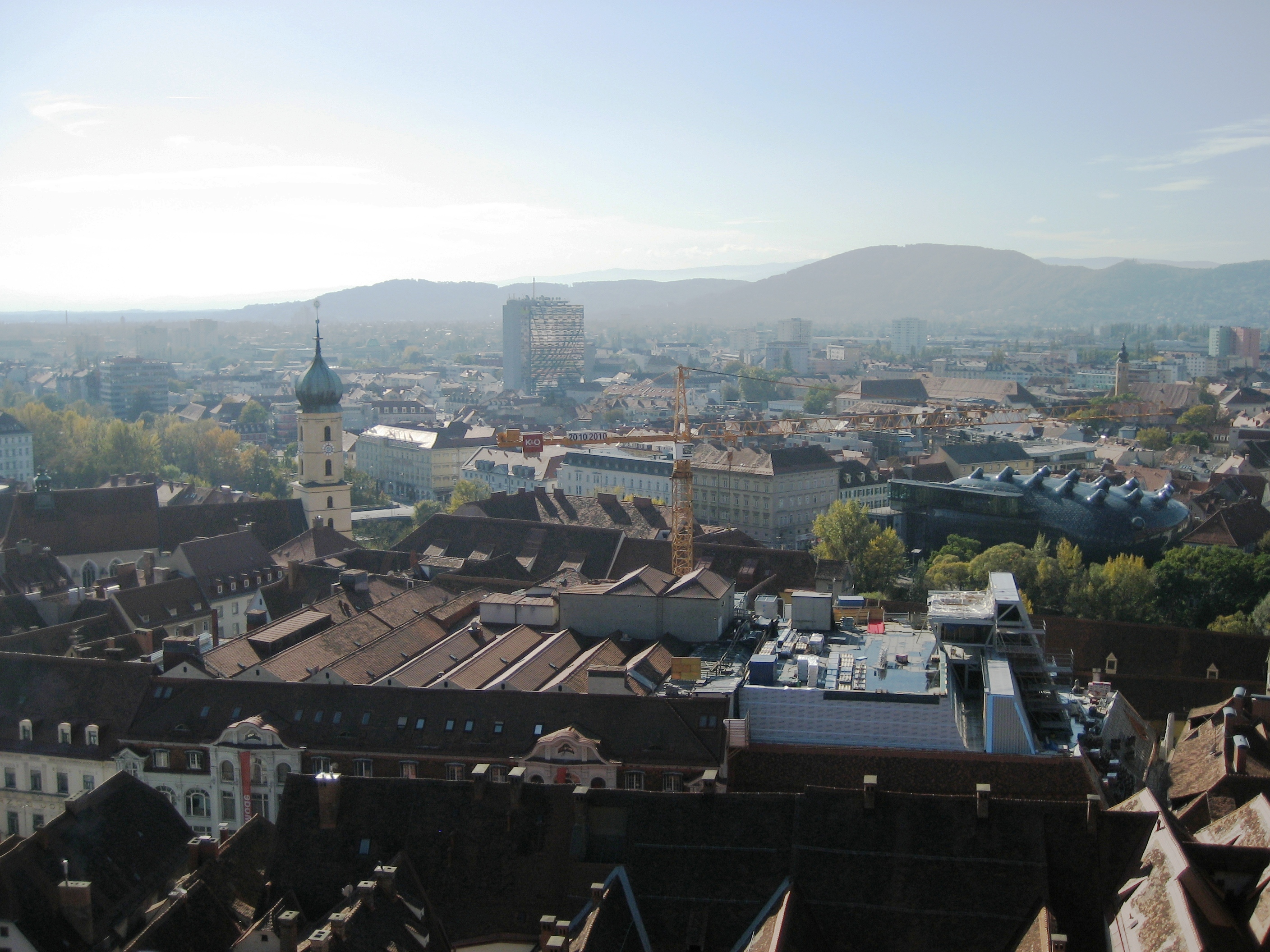 View from the Schloßberg (castle mountain) in Graz, Austria